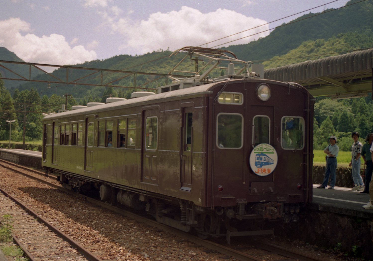 JRC Kumoha12041 EC. This photo was taken at Mikawa-makihara station.